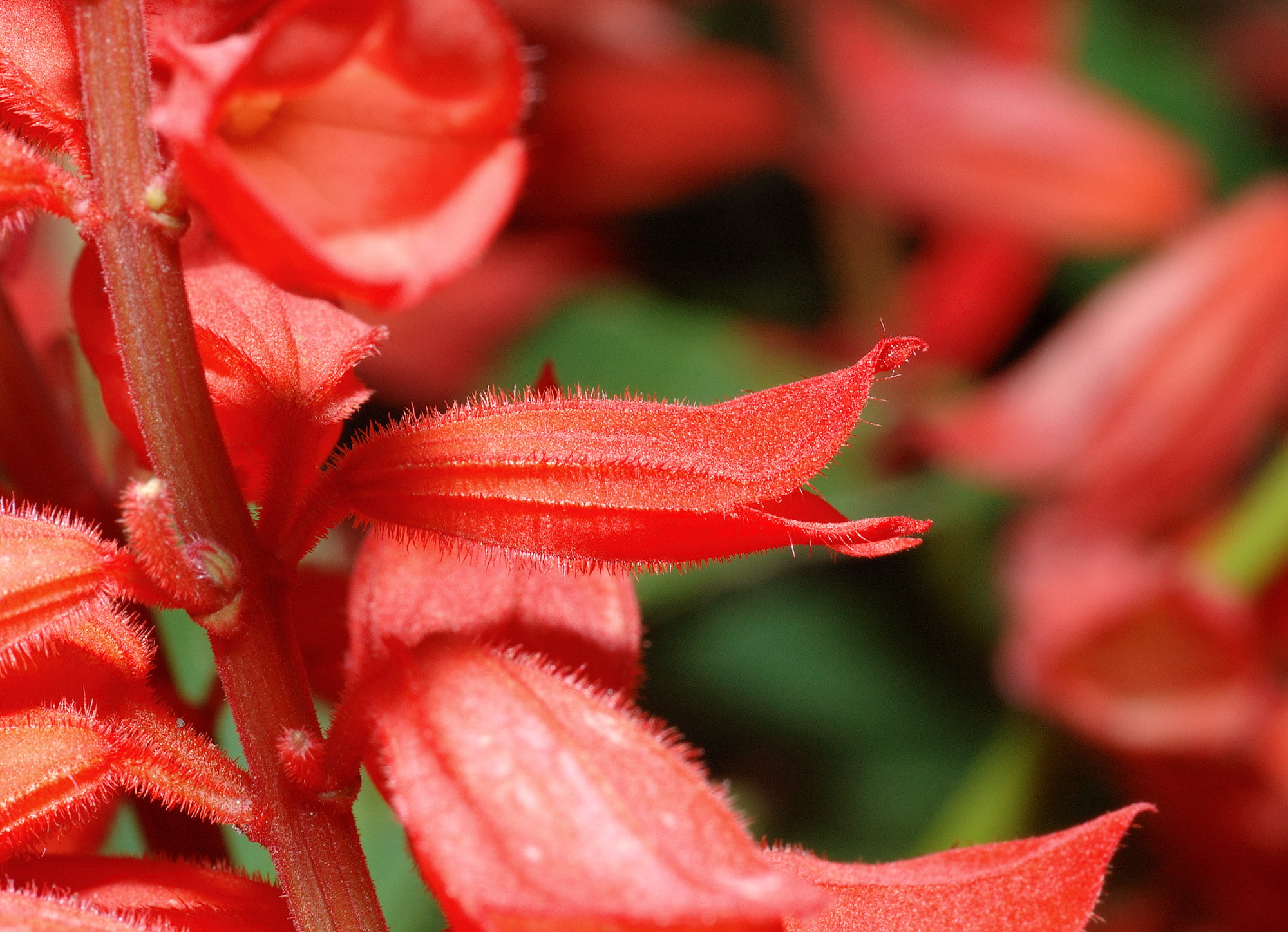 This image shows a close-up shot of a Scarlet Sage plant (Salvia splendens).